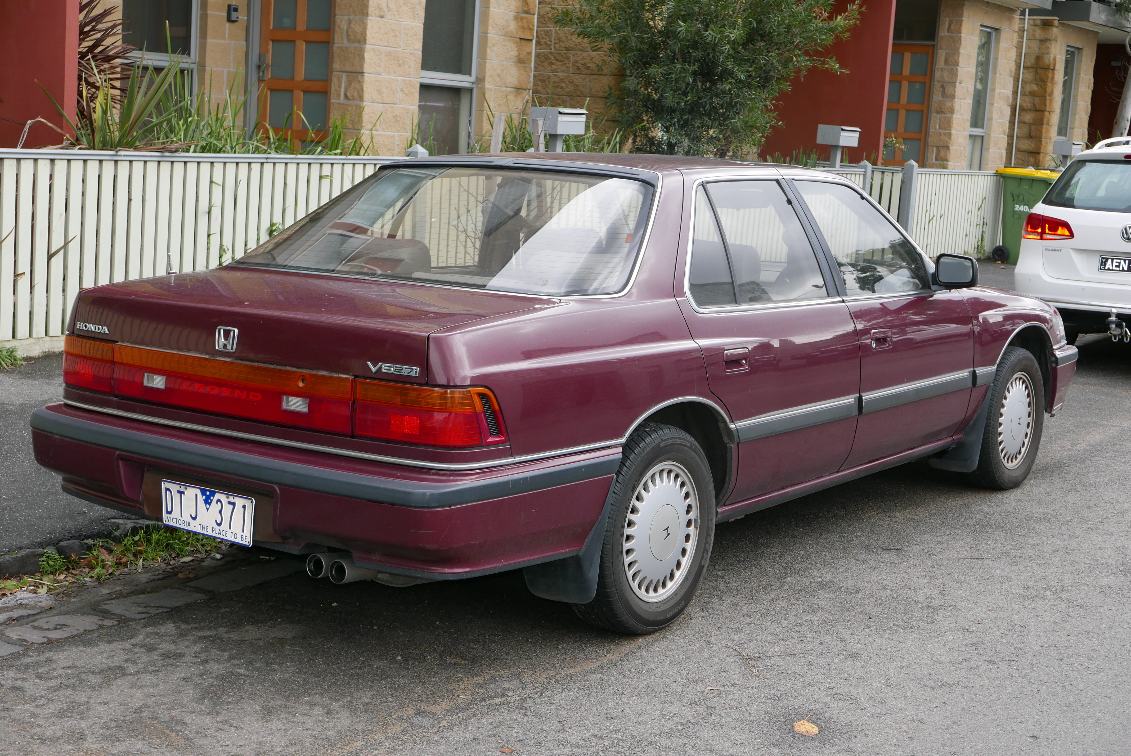 1989 Honda Legend (KA4) sedan. Photographed in Northcote, Victoria, Australia. Vehicle registration enquiry results Jurisdiction Victoria Registration DTJ371 Chassis code JHMKA46400C101934 Engine code C27A12701602 Compliance date 1989-04 Year of manufacture 1989